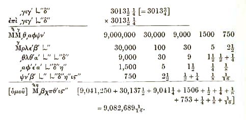 The works of Archimedes (1897) Author: Archimedes; Heath, Thomas Little, Sir, 1861-1940 Subject: Mathematics, Greek; Geometry; Mechanics Publisher: Cambridge, University Press Language: English Call number: b13151022 Digitizing sponsor: Wellesley College Library Book contributor: Wellesley College Library Collection: americana; blc